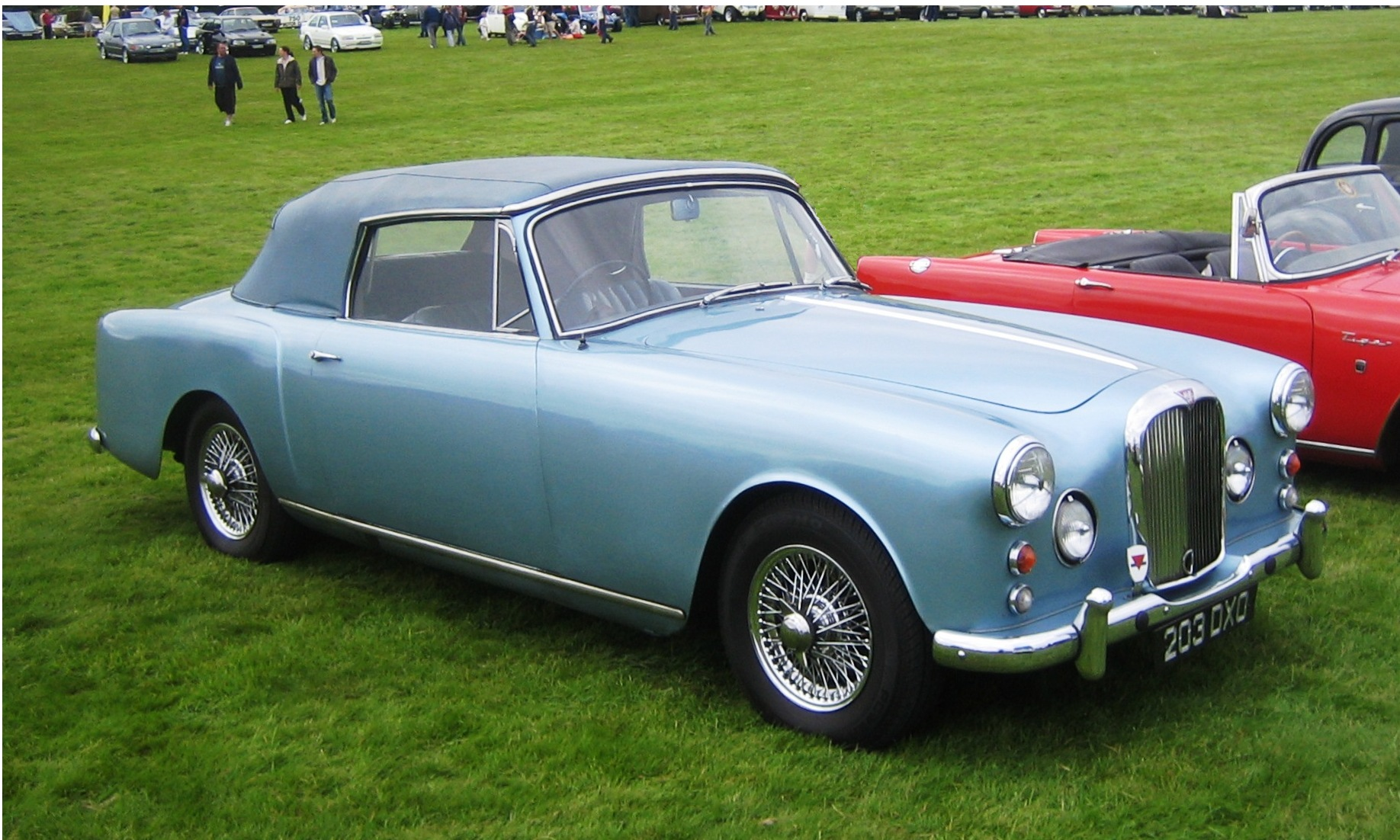 Alvis Convertible at Knebworth Classic Car Show first registered 10 May 1962, 2993cc